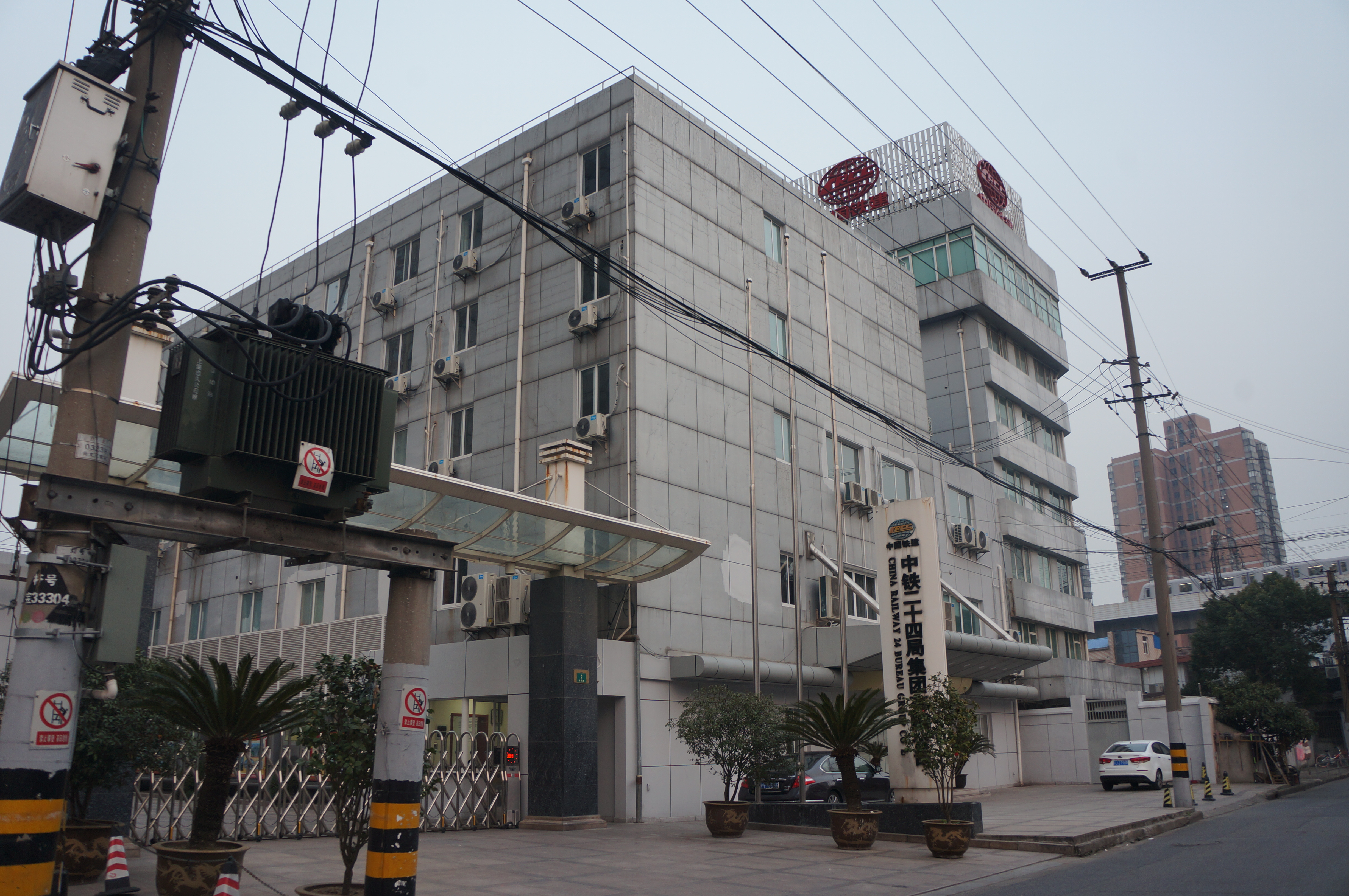 201702 Headquarter of CRCC 24th Bureau on Jiaotong Street.